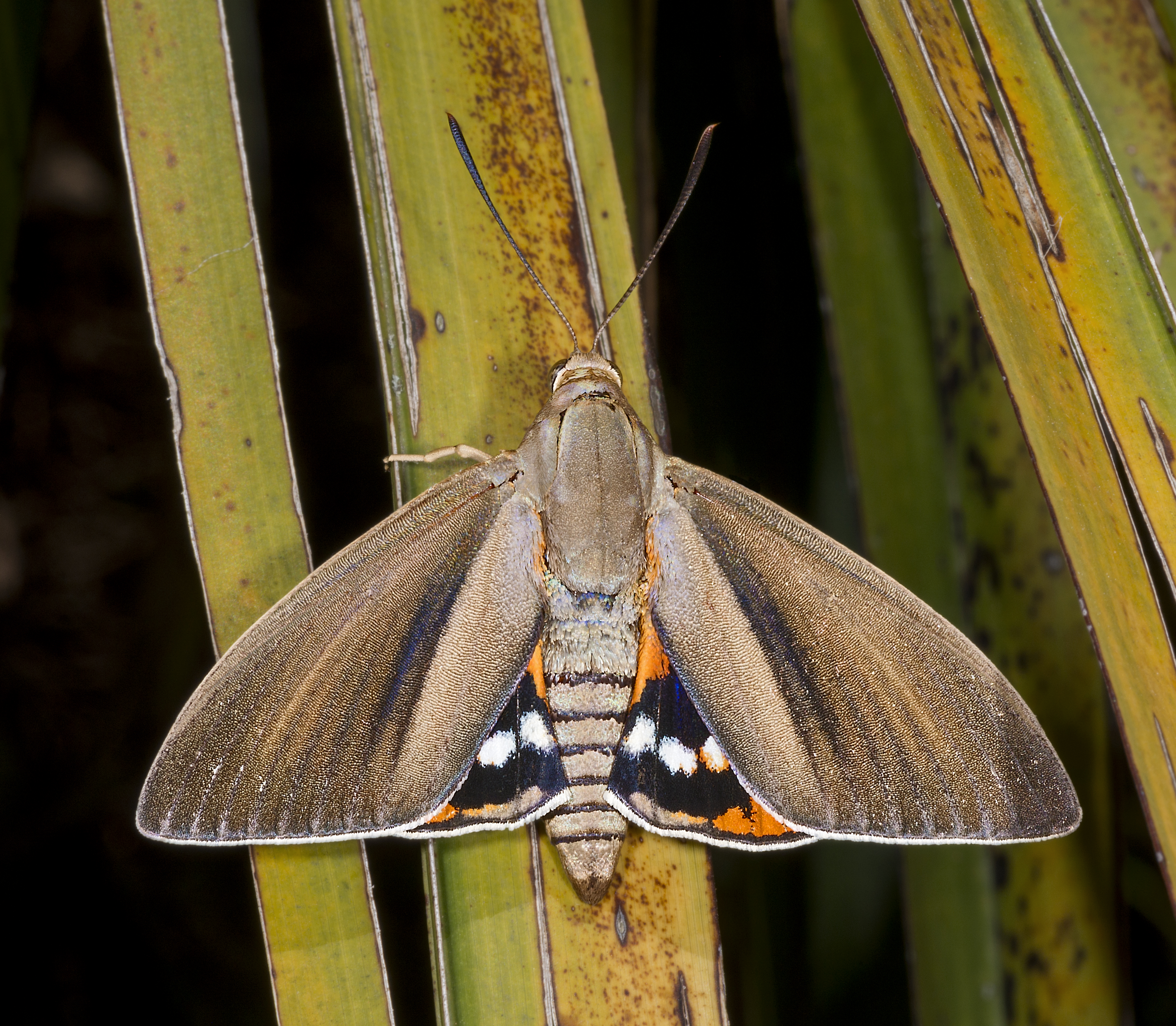 Paysandisia archon (Palm moth), male dorsal side